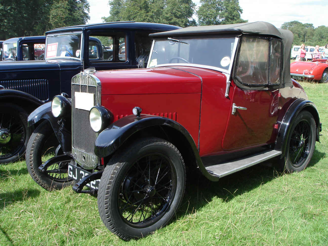 Triumph Super Seven car at Astle Park Steam rally